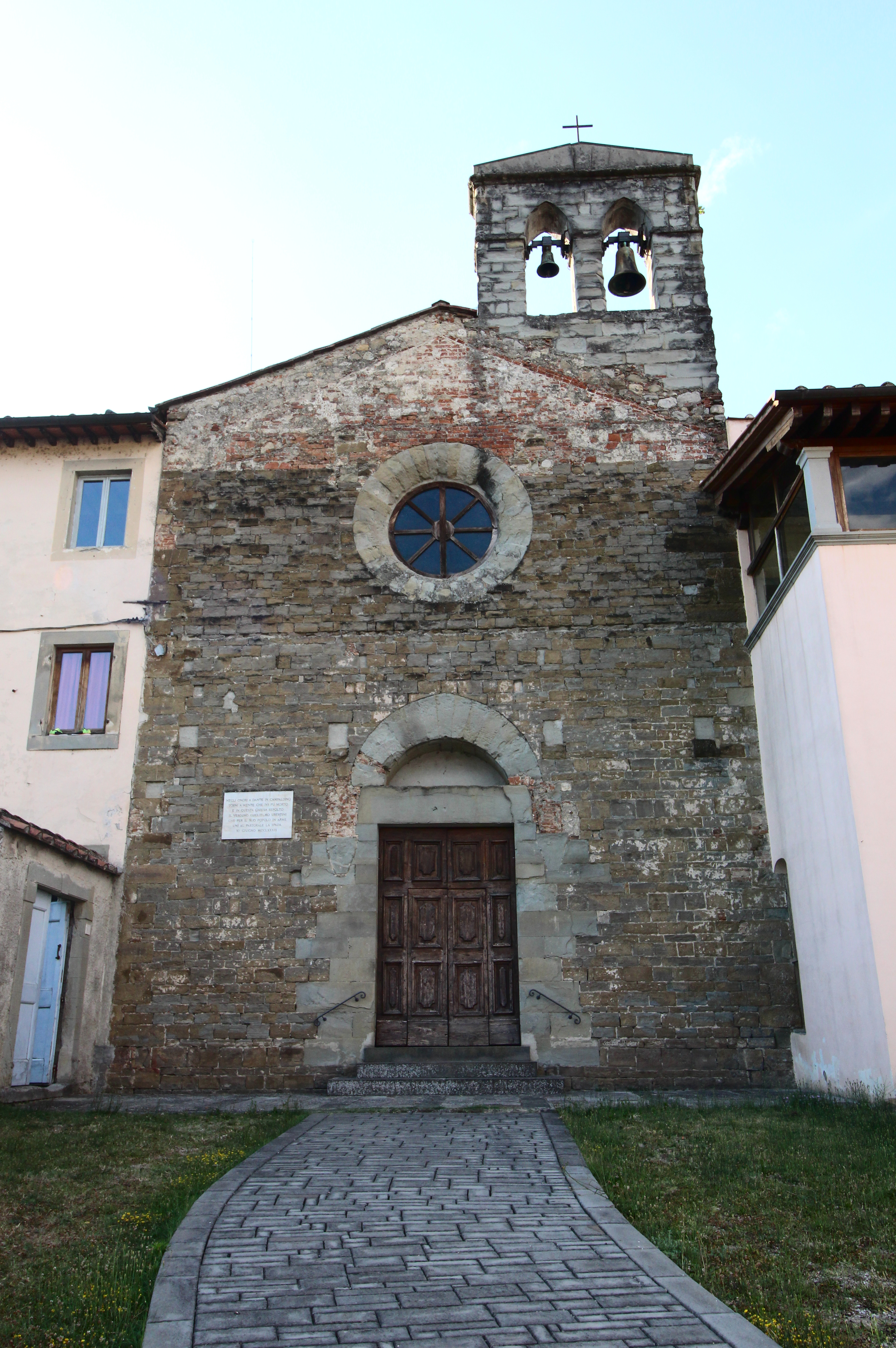 Church and Convent Santissima Annunziata e San Giovanni Battista, Poppi, Casentino, Province of Arezzo, Tuscany, Italy